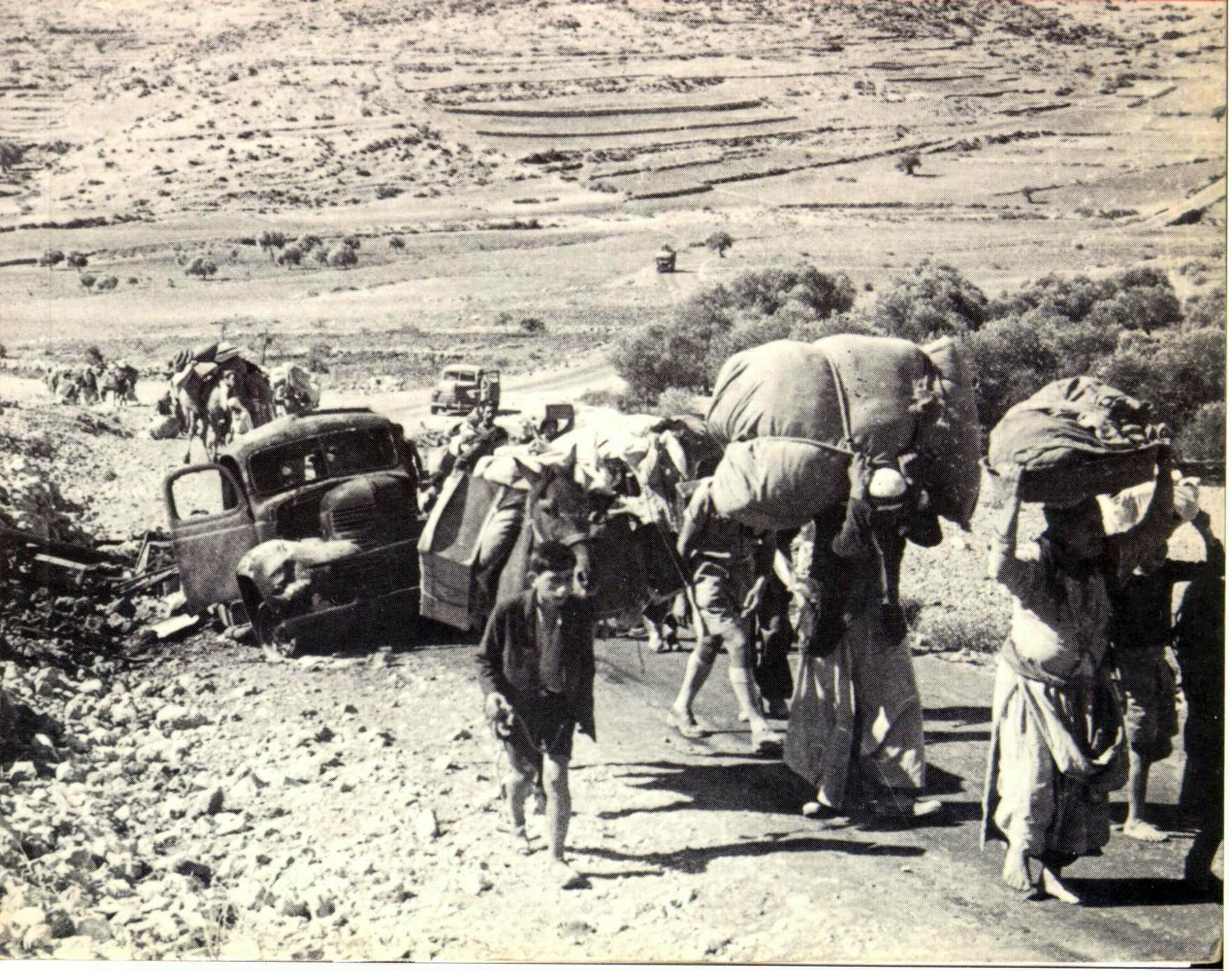 Palestinian refugees (British Mandate of Palestine - 1948).